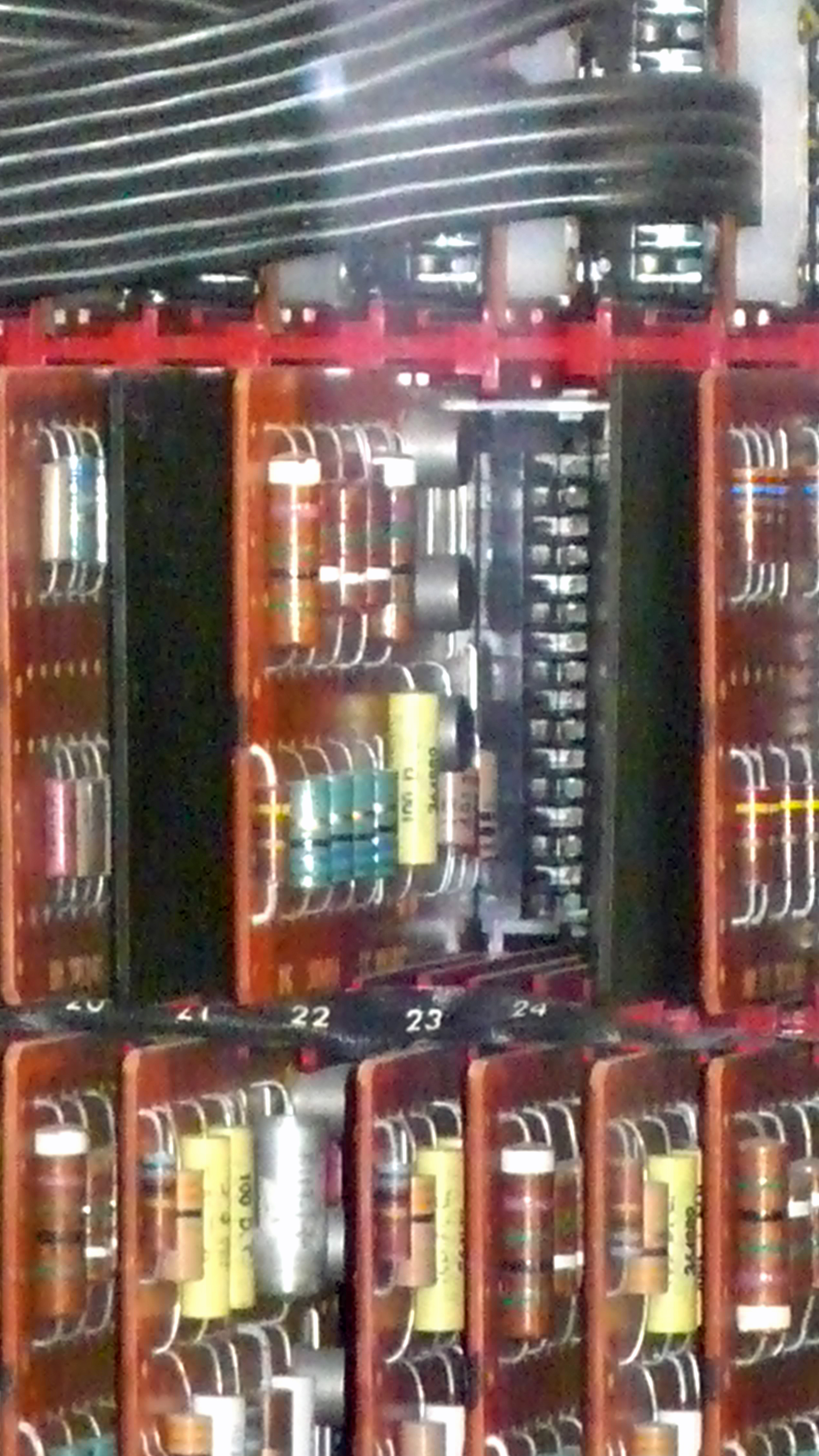 Part of an IBM 7070 card cage showing Standard Modular System (SMS) cards with discrete transistors